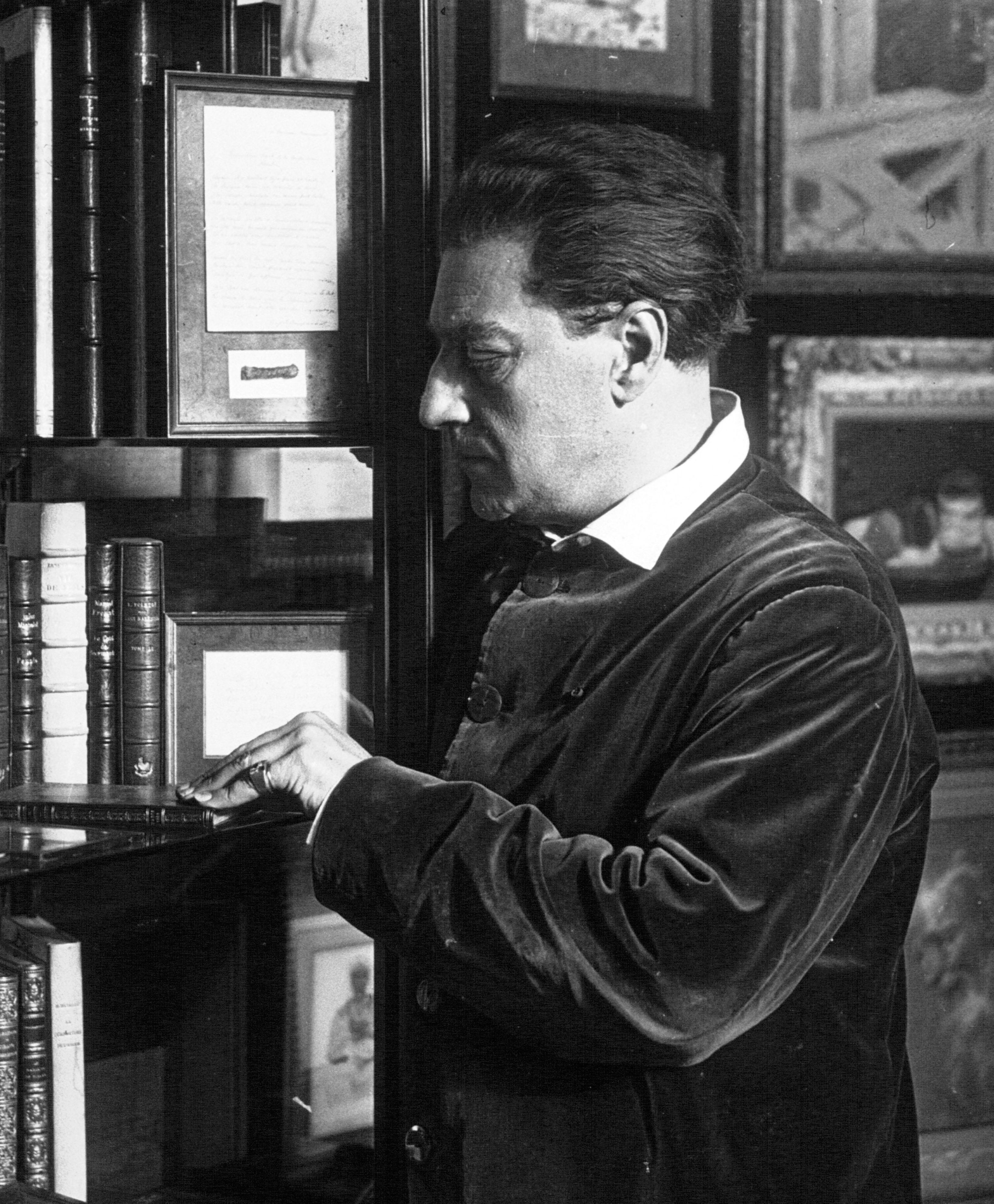 French actor, director, screenwriter and playwright Sacha Guitry (1885-1957).